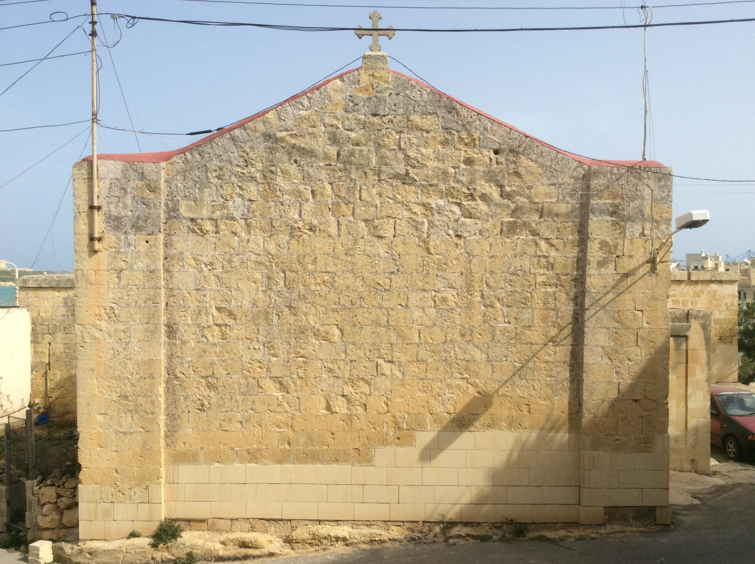 Saint George Redoubt Church back